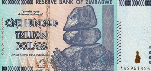 Zimbabwe 100 TRILLION 100 000 000 000 000 Dollars